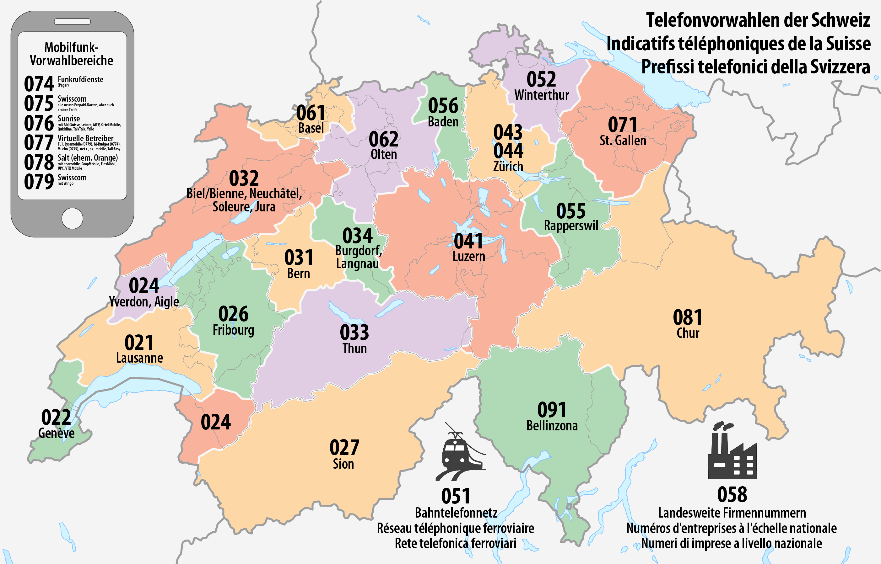 Map of the dialing codes of the telephone network of Switzerland